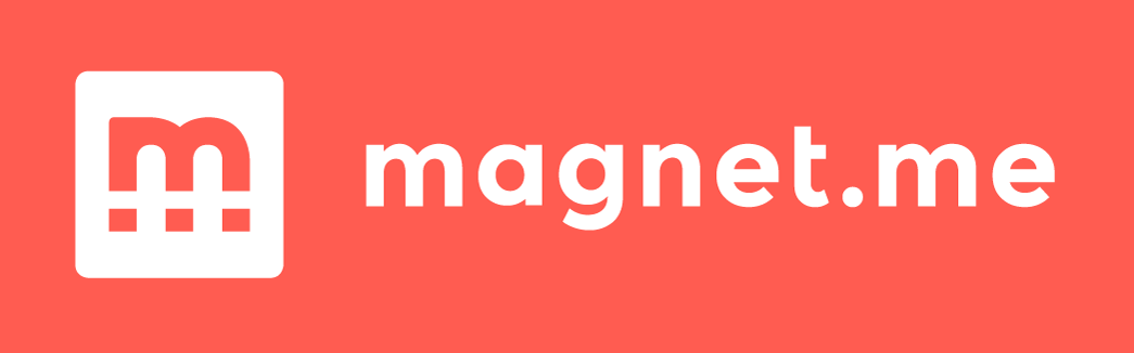 Magnet.me Logo- White on Red version